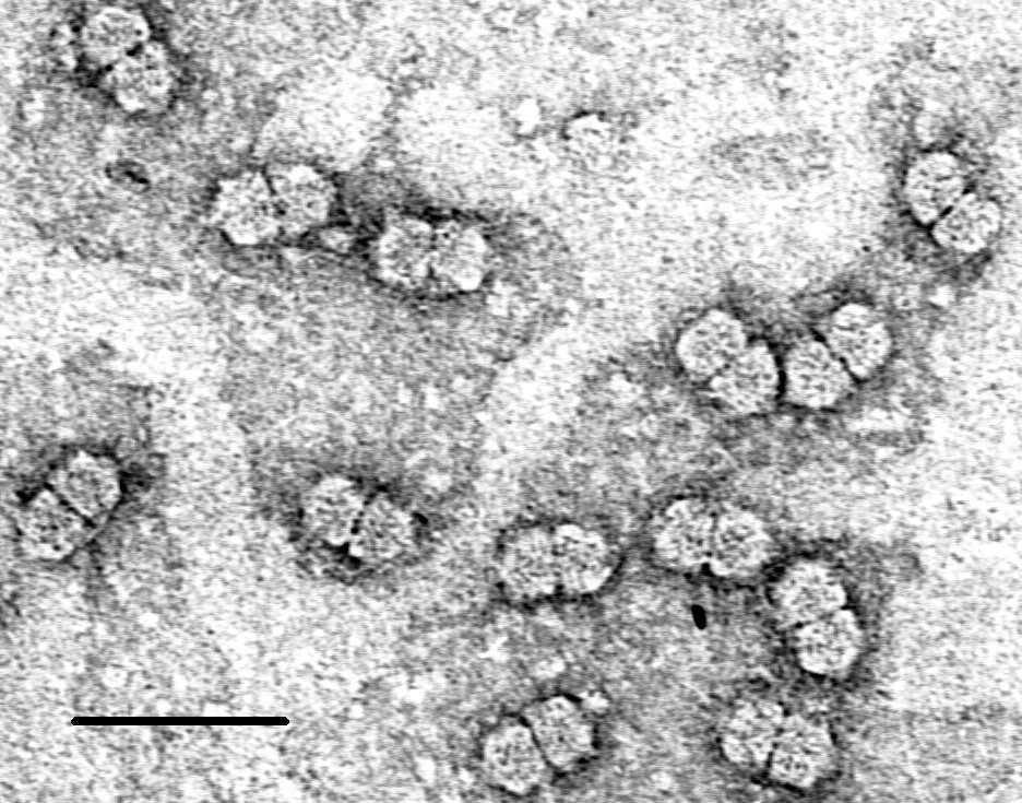 Picture taken by Kassie Kasdorf, presently at Plant Protection Research Institute, Pretoria, for the University of Cape Town. In the collection of Professor Ed Rybicki, Dept Molecular & Cell Biology, University of Cape Town, and copyrighted by him.